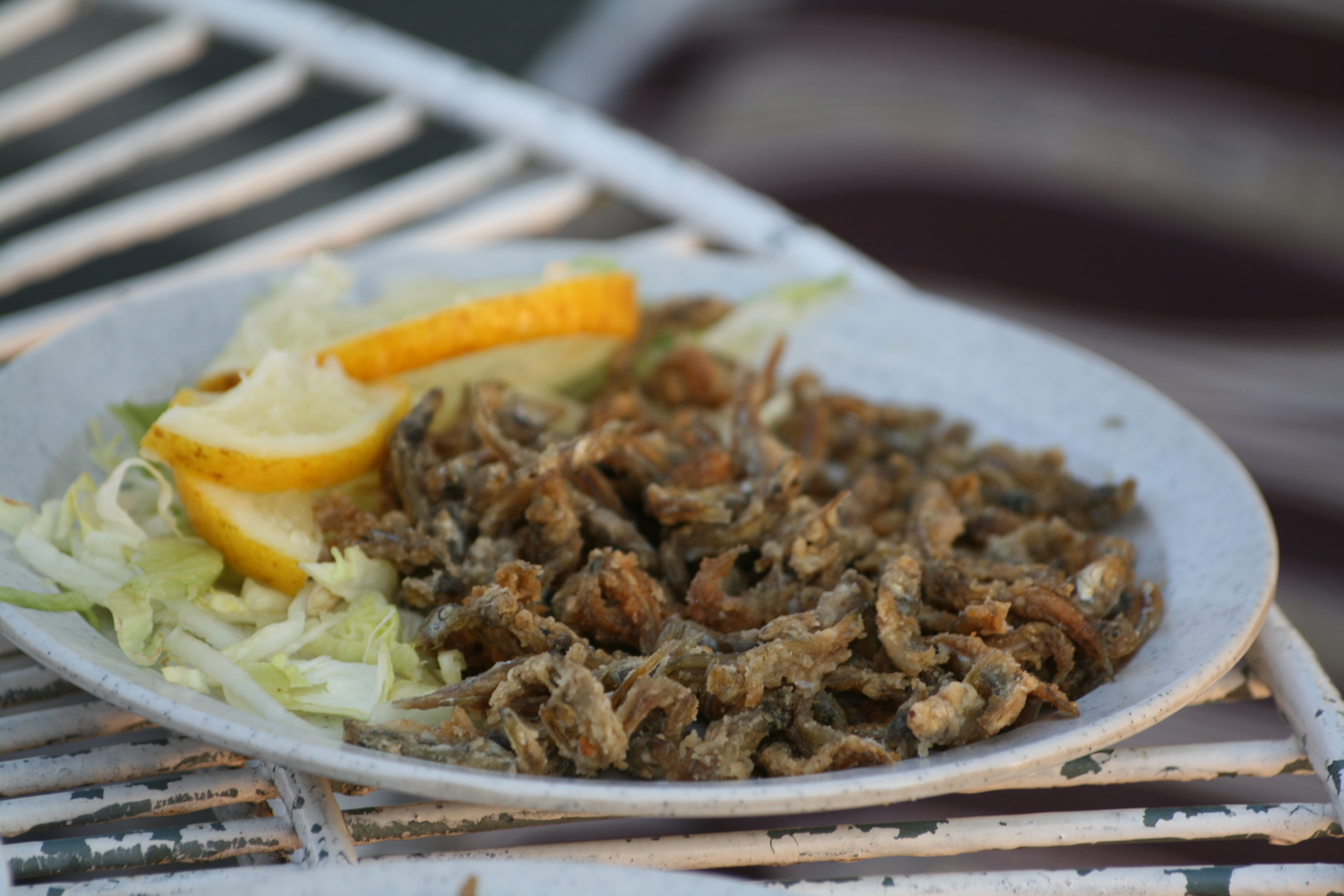 Deep fried kapenta served aboard the Kariba Ferry as a light snack.